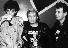 The Shakin' Pyyramids in Montreal in 1983. This was taken by myself, someone who has been closely acquainted with The Pyramids for many years.